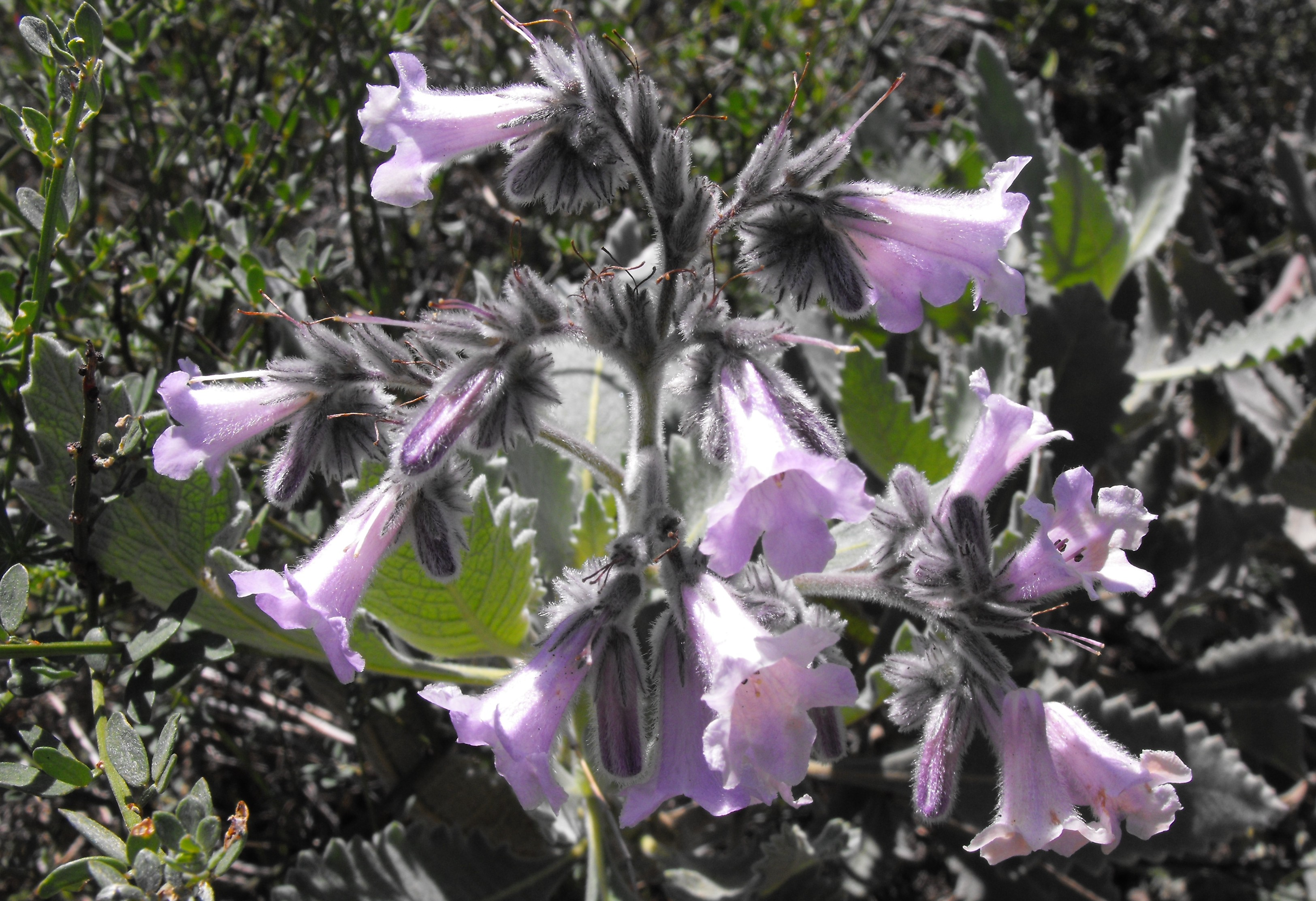 Eriodictyon crassifolium at Torrey Pines State Reserve, San Diego, California, USA.